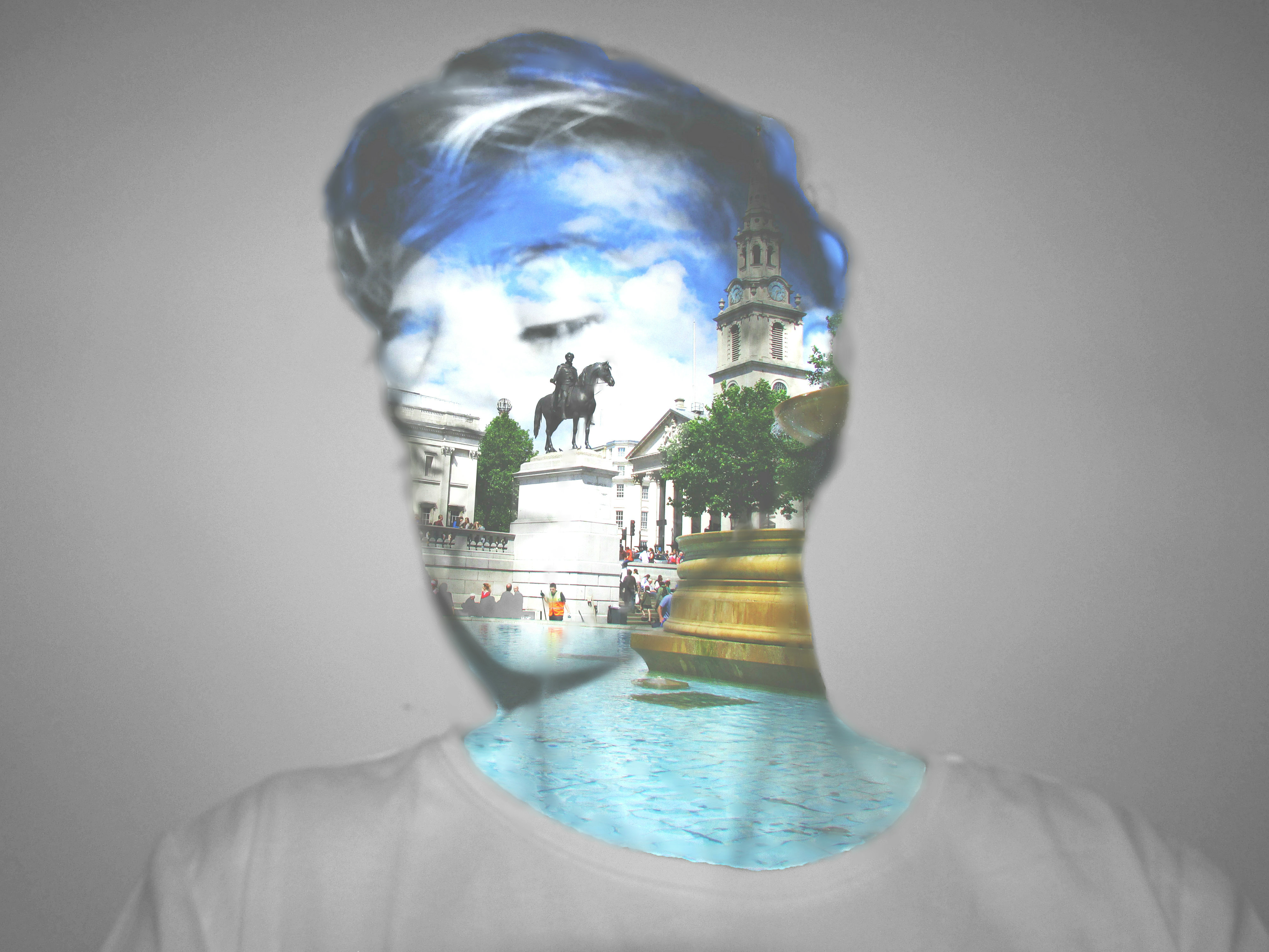 A self portrait photo merge, created using Photoshop.